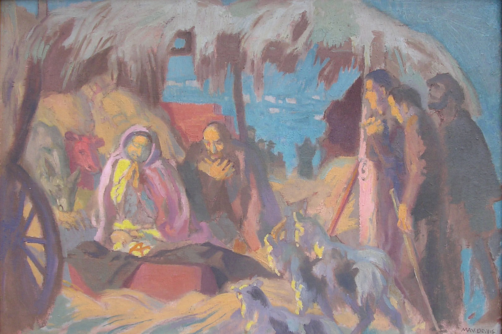 Nativity.